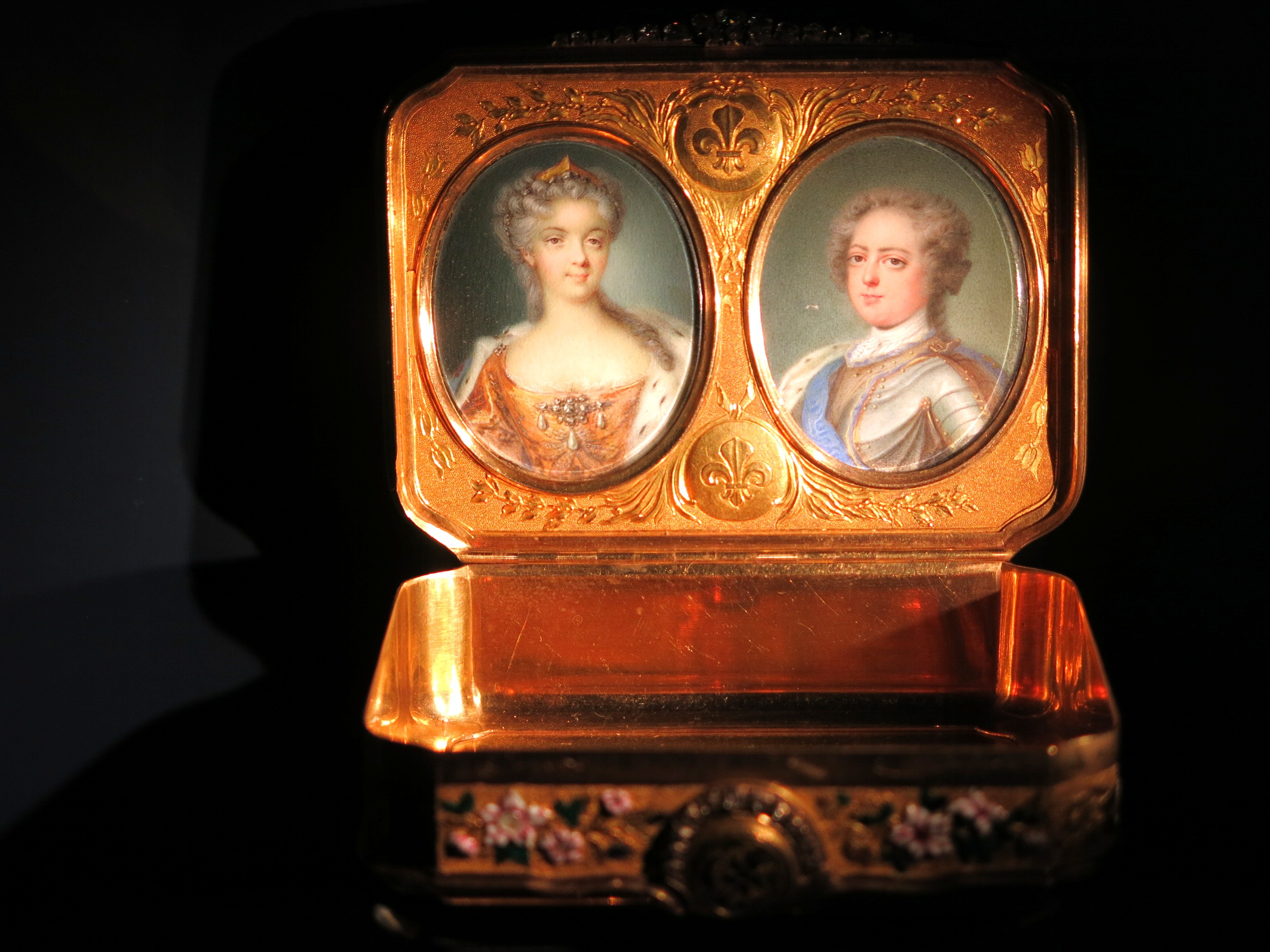 Tobacco snuffbox with the portraits of the French king Louis XV and his wife Marie Leszczynska. Louvre museum (Paris, France). Paris, D. Govaers, 1725-1726. Gift of Louis XV to Cornelis Hop, Holland ambassador. Anonymous gift 2000.